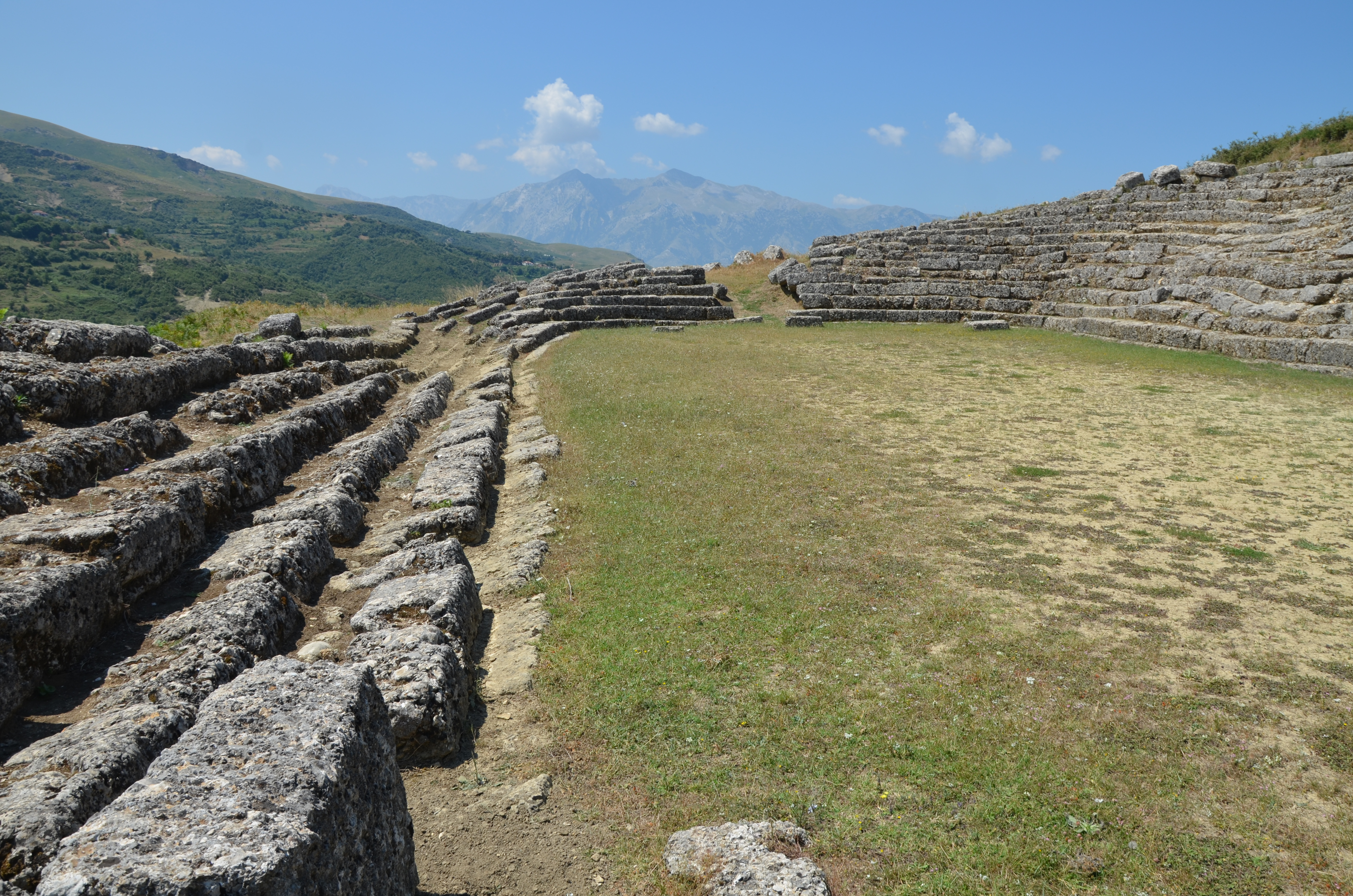 The stadium is 60 m long and 12.5 m wide. The stadium has 17 steps on one side and 8 on the other and could accommodate about 4000 people. The Stadium is about 100m below the site to the south-east. Excavations have revealed that it was used for athletic contests including running races, boxing, javelin and discus throwing. The stadium was constructed in the 3rd century BC and remained in use until the 3rd century AD.